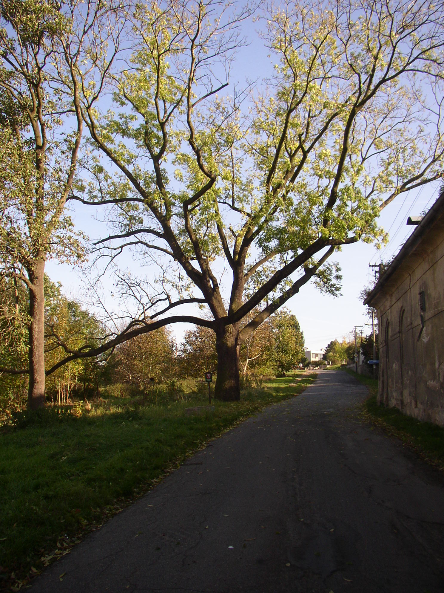 Protected example of Common Ash (Fraxinus excelsior) in Hostouň, Kladno District, Czech Republic.